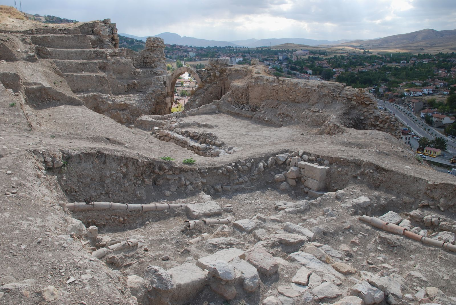 Divriği, Sivas province, entrance citadel